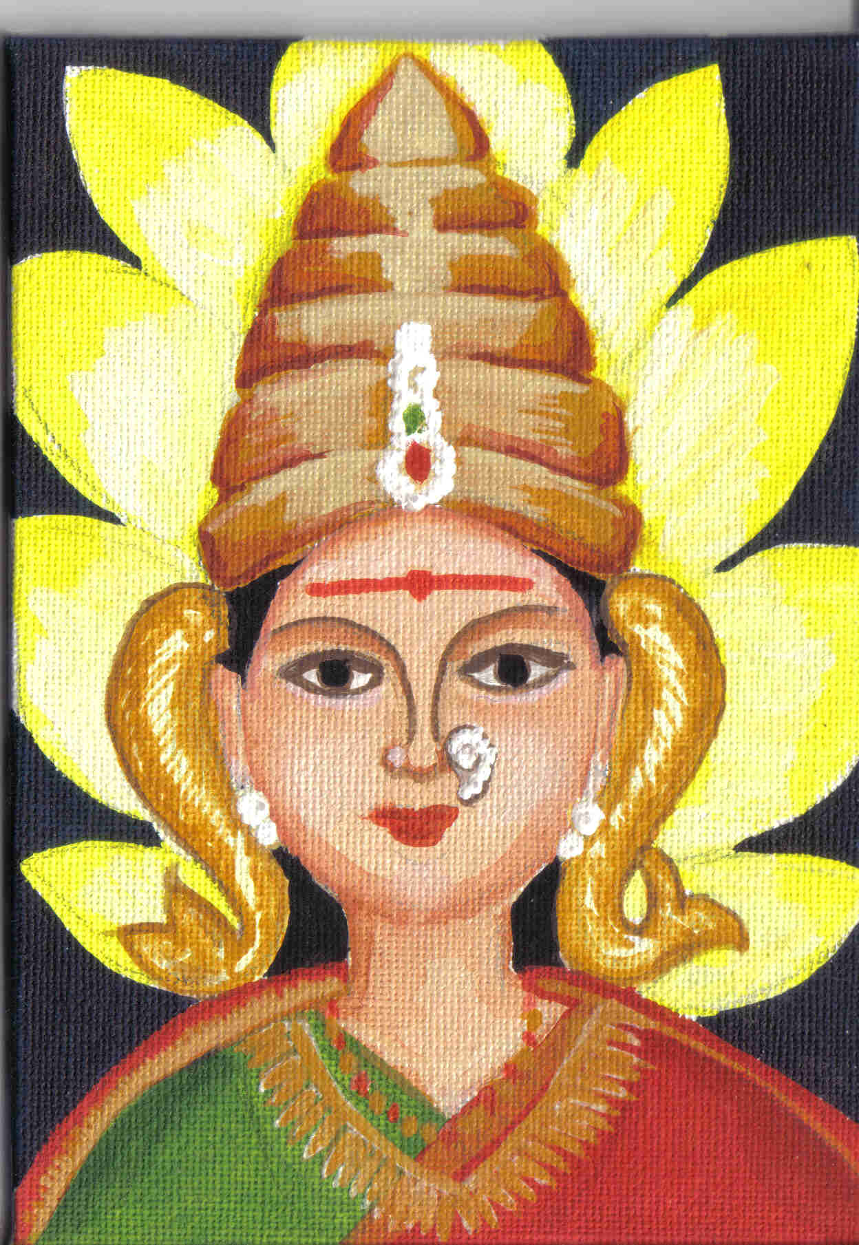 This is an acrylic painting of Shree Shantadurga